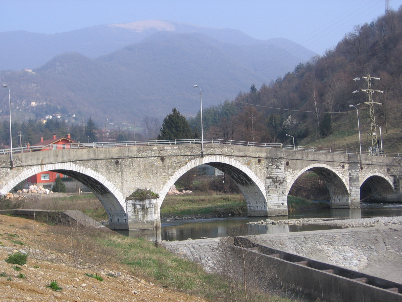 Fiume Serio a Nembro, Bergamo, Italy